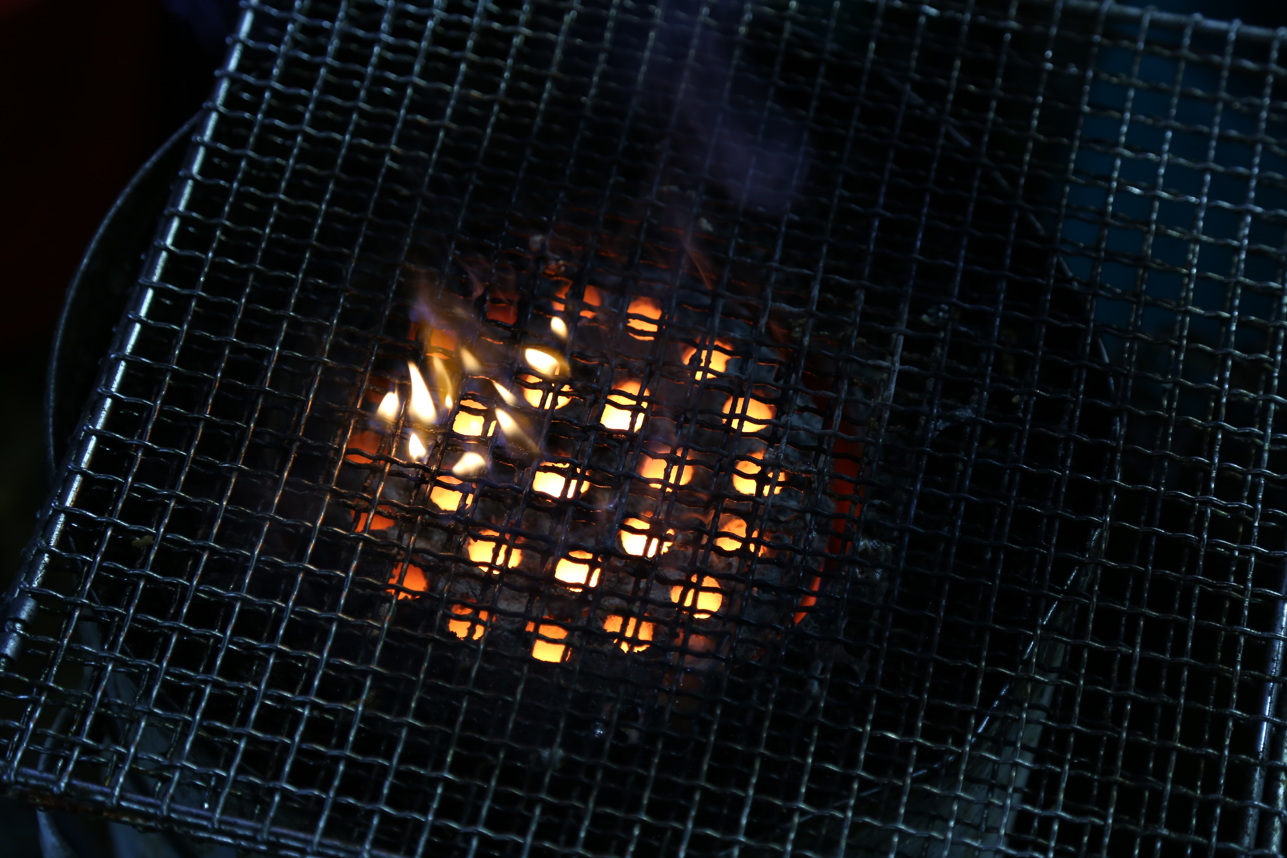 yeontan (coal briquette) grill